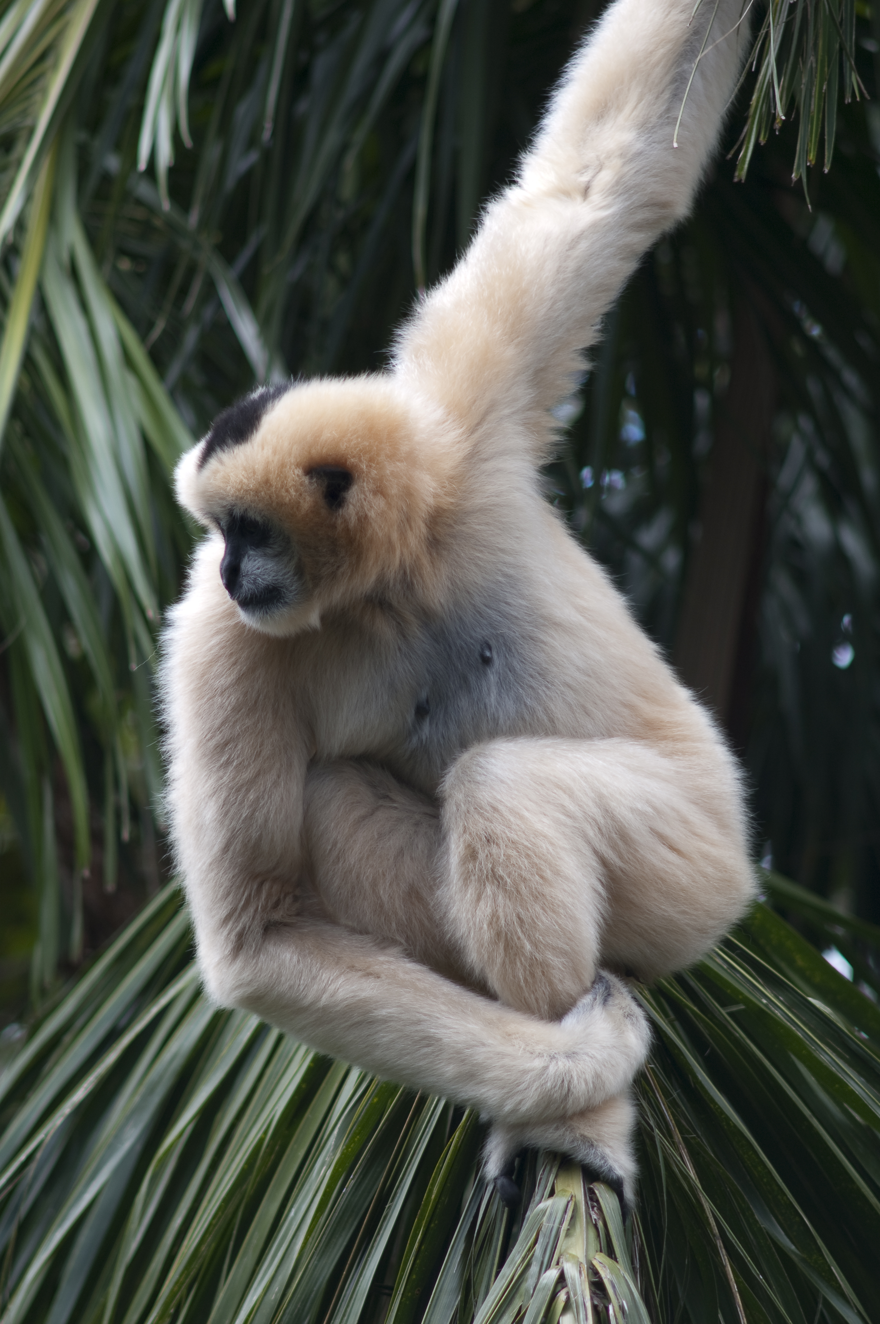 A captive female Northern White-cheeked Gibbon (Nomascus leucogenys), also known as a "White-Cheeked Gibbon" due to the prominent white colouring on the male of the species. This example is from the Adelaide Zoo in South Australia.